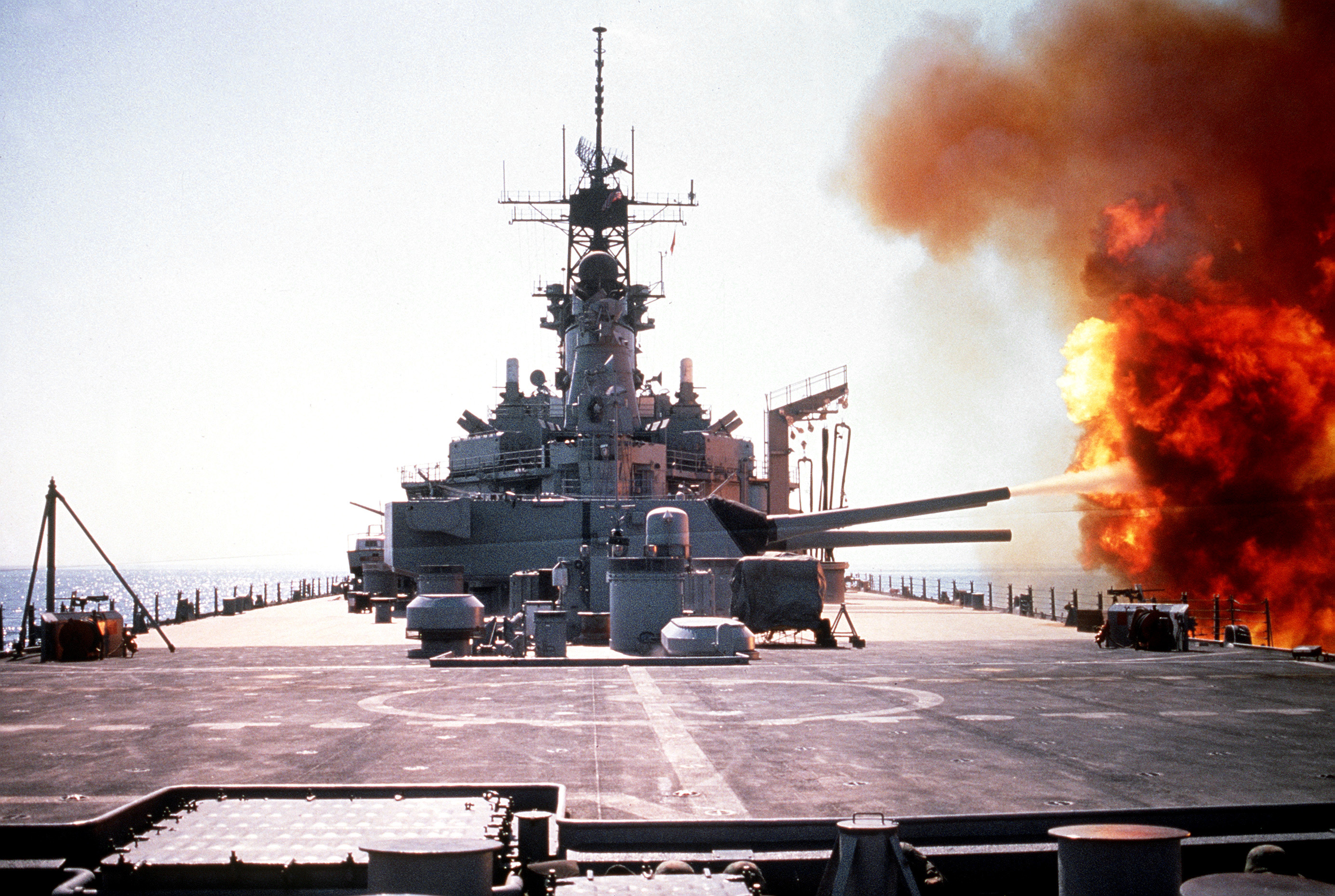 The battleship USS WISCONSIN (BB-64) fires a round from one of the Mark 7 16-inch/50-caliber guns in its No. 3 turret during Operation Desert Storm. The ship's target is an Iraqi artillery battery in southern Kuwaiti. This was the first time Wisconsin's guns had fired in anger since 1952, and would mark the start of her participation in the ground war during Operation Desert Storm. (ID: DNST9208524 Service Depicted: Navy)